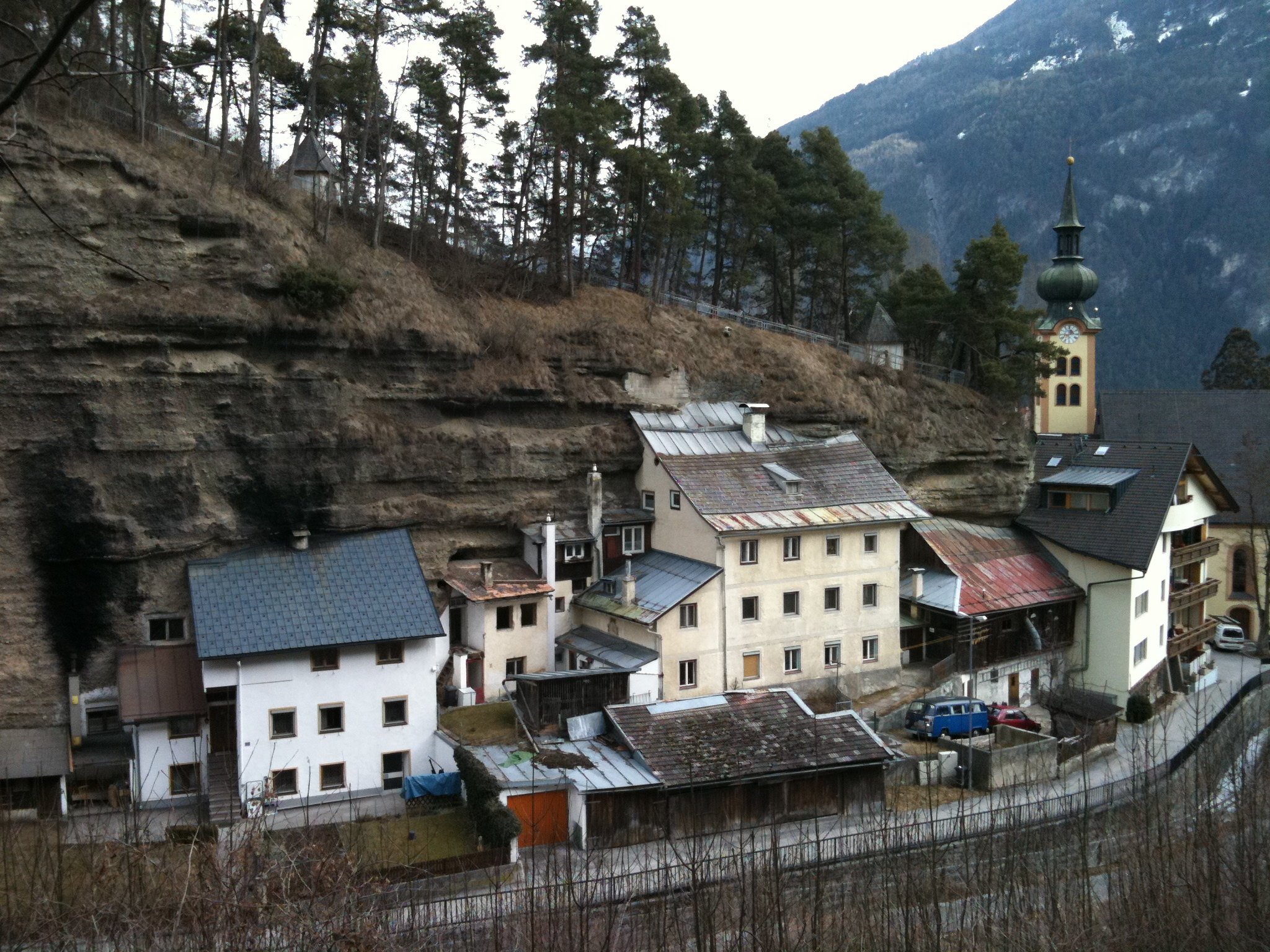 Buildings in Imst seemed to be merge into the rock